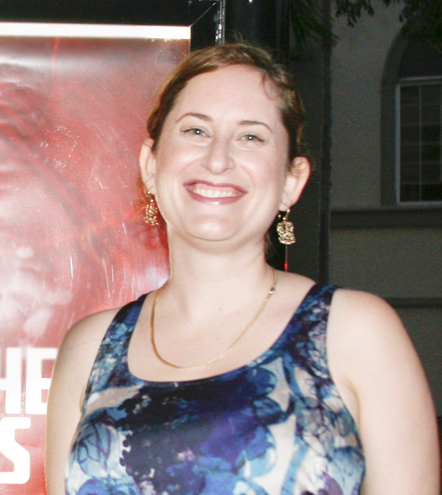 Alysa Nahmias